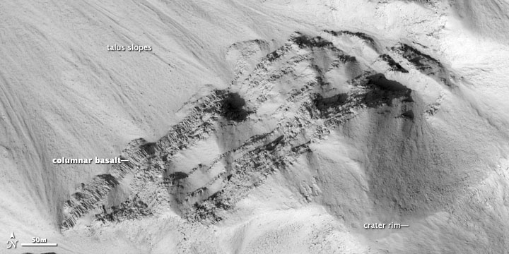 Columnar jointing of basalt in Marte Vallis, Mars. The image shows layers of solidified lava flows exposed on the rim of a 16-kilometer-diamter crater in the Marte Vallis region on Mars. This image from the High Resolution Imaging Science Experiment HiRISE instrument aboard NASA’s Mars Reconnaissance Orbiter shows the first columnar joints positively identified on a planet other than Earth. Columns between 30–40 meters (100–130 feet) tall and about 2 meters (6.6 feet) wide comprise the lowest of the visible layers in the Mars image. (The exposed columns run from lower left to upper right in this image.) Beneath the columns, talus (eroded debris) slopes towards the crater floor. The crater rim is visible in the lower right corner. The Sun is lighting the scene from the lower left. Jointed columns occur around the entire circumference of the crater, indicating that the lava flows cover a huge area: at least 200 square kilometers (77 square miles). The widespread lava flows stacked on top of one another appear similar to the terrestrial flood basalts of the Columbia River Basin in Idaho, Oregon, and Washington, where instances of columnar jointing are common. It is likely that runny lava from a distant source formed layers of basalt in Marte Vallis, and they were uncovered when an asteroid punched through the Martian surface. Mars image courtesy High Resolution Imaging Science Experiment, Arizona State University.